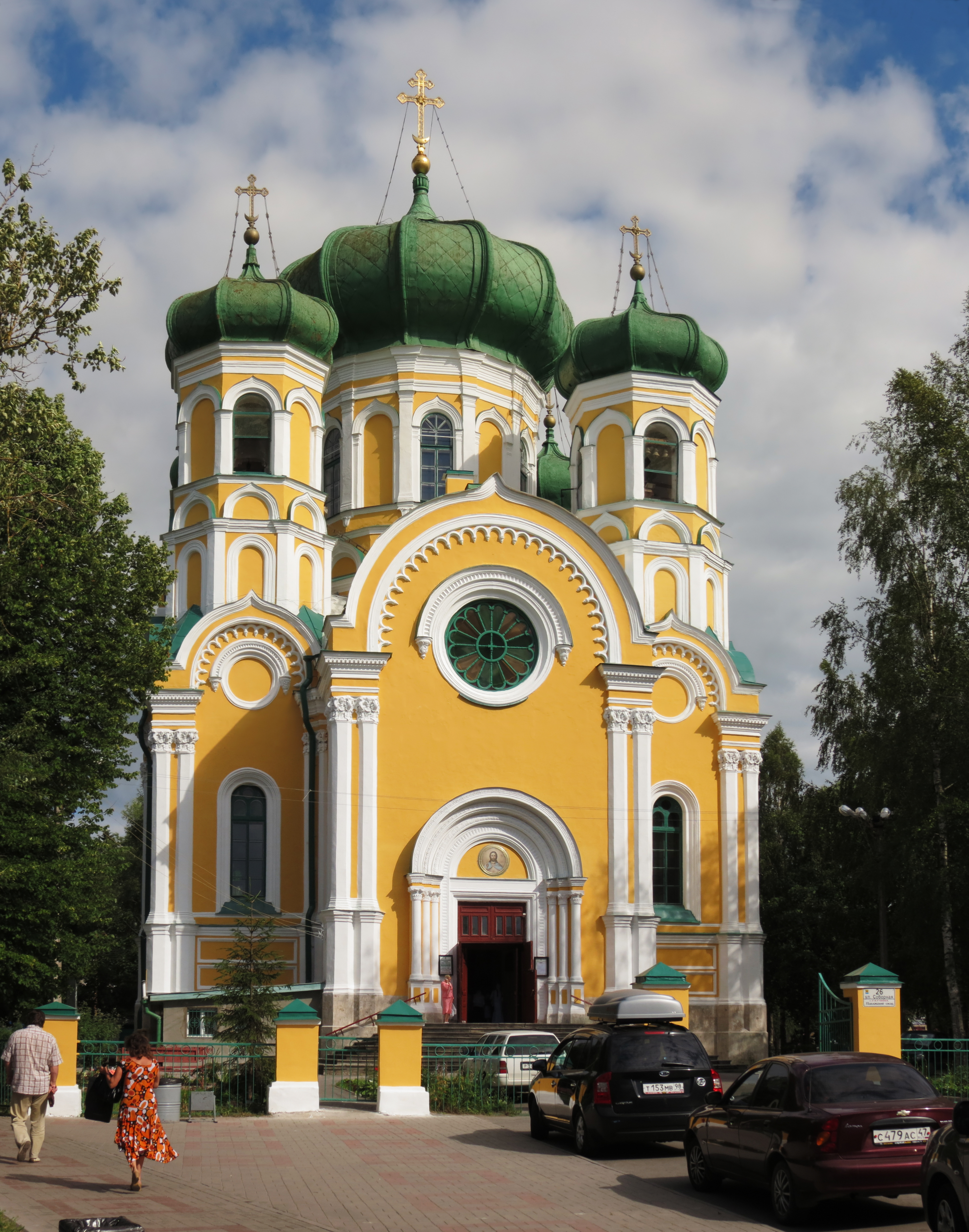 Pavlovsky Cathedral in Gatchina, Russia